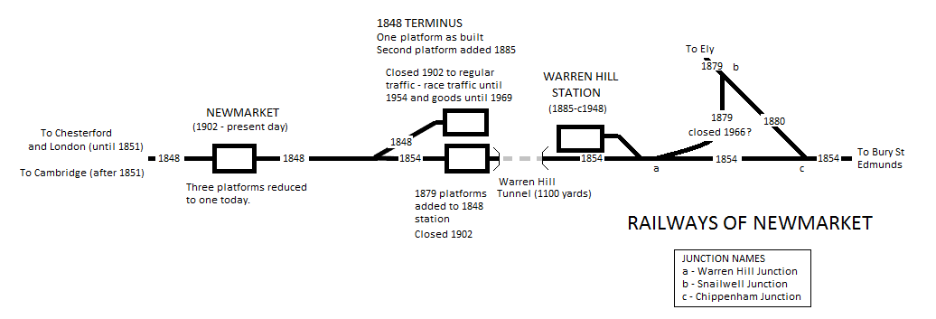 A sketch map of railways in Newmarket (Suffolk)